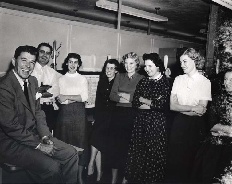 Ronald Reagan visiting a General Electric plant in Danville, Illinois